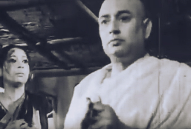 Basanta Chowdhury and Suchitra Sen in Dinen Gupta's movie - Devi Chaudhurani [1974 AD].